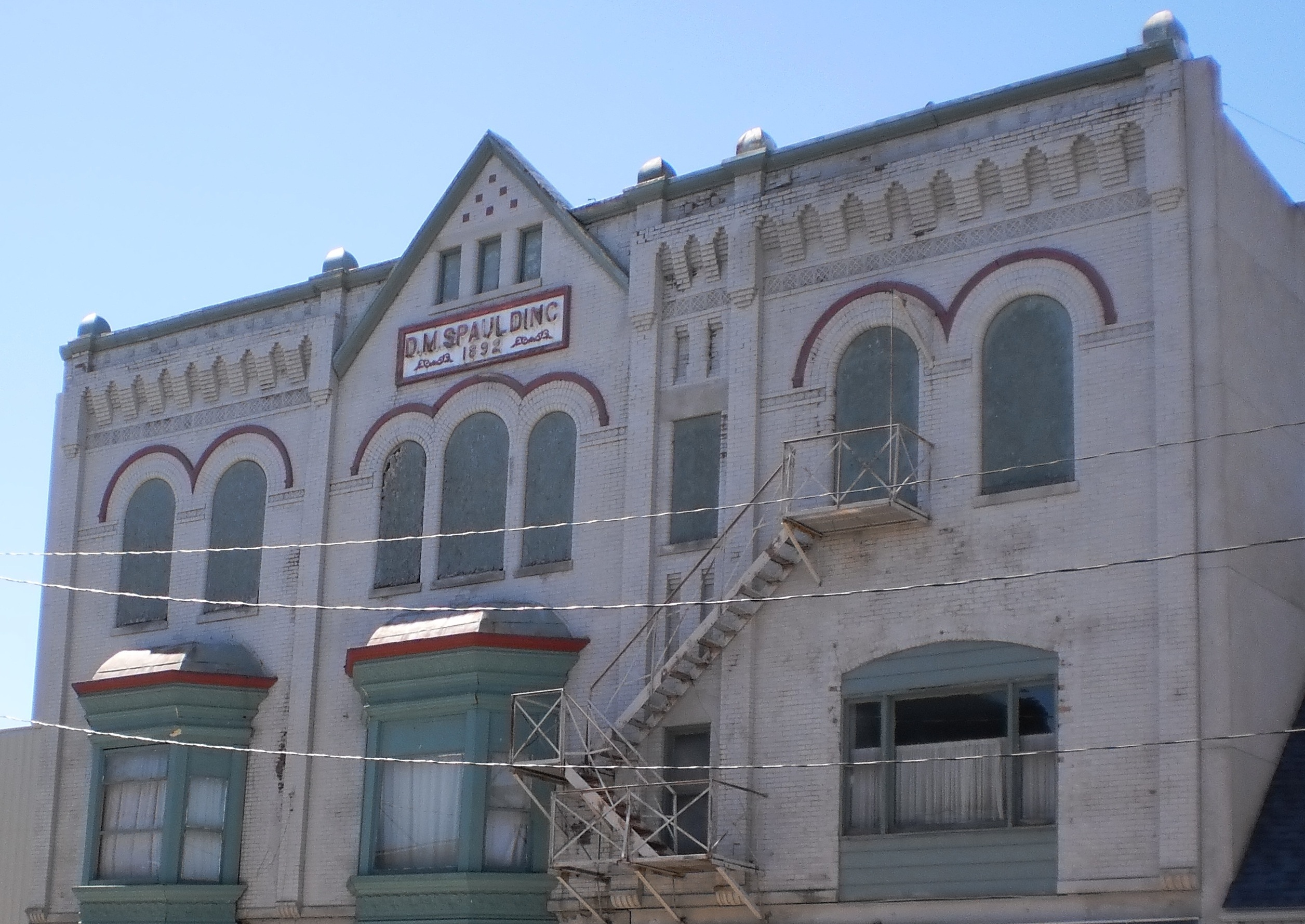 Montpelier Indiama's historic Spaulding building, built during Indiana Gas and Oil Boom